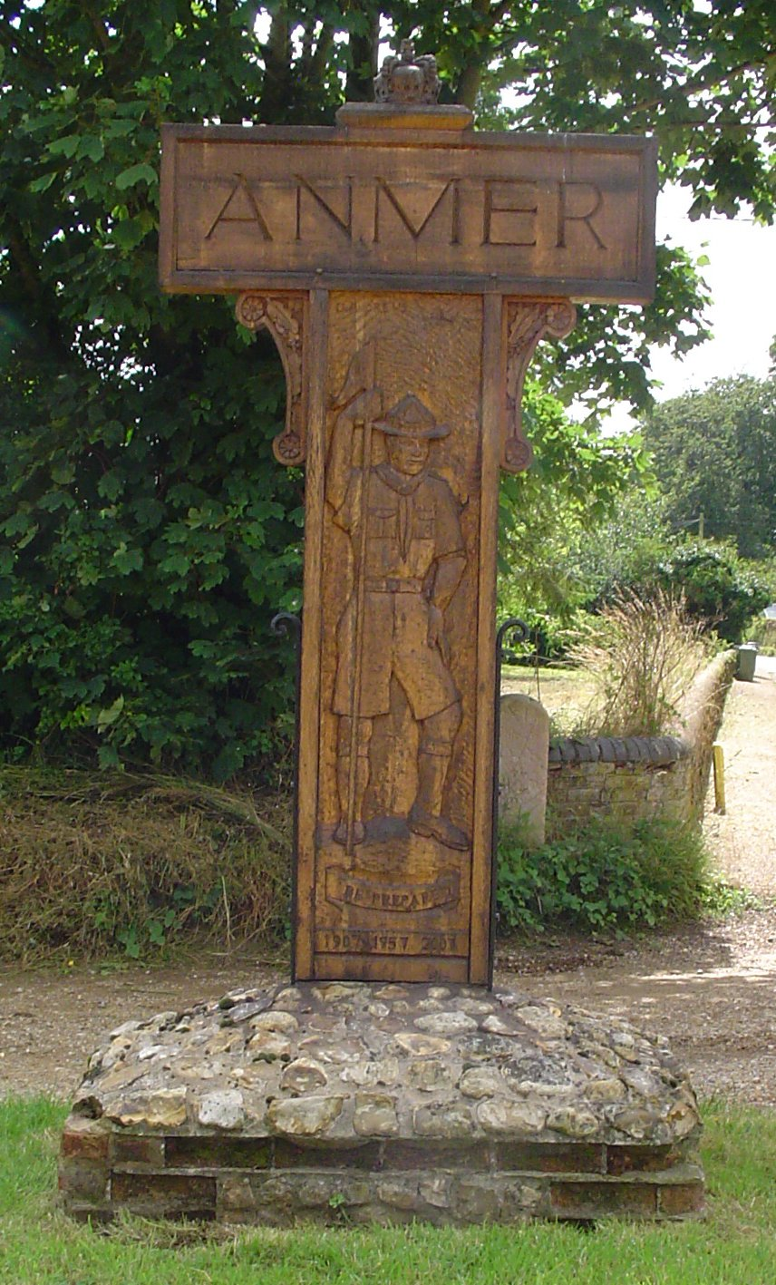 Signpost in Anmer